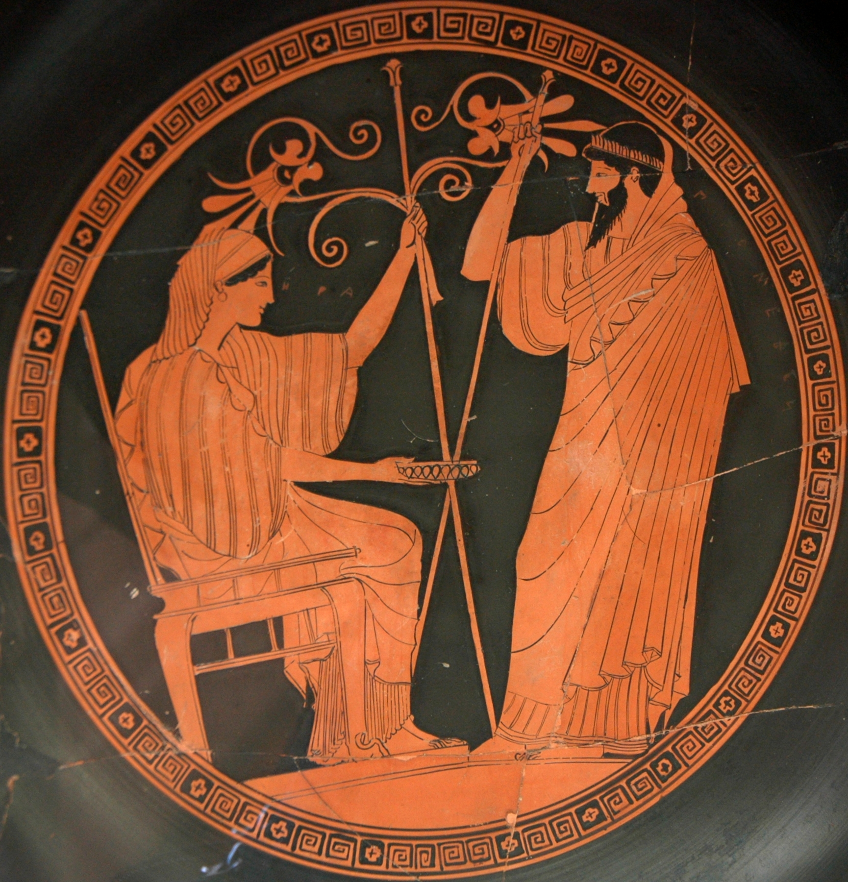 Hera and Prometheus. Tondo of an Attic red-figured kylix, 490–480 BC. From Vulci, Etruria.